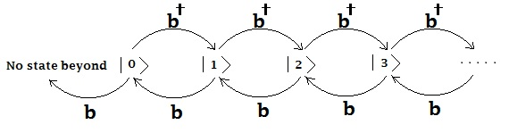 Pictorial visualization of action of creation and annihilation operators on single mode fock state.